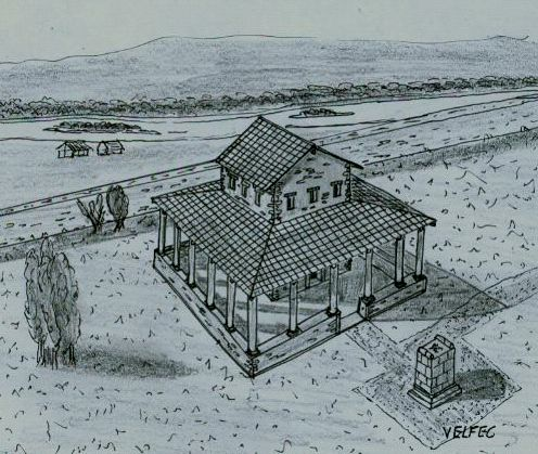 Reconstruction Gallo-roman tempel B and Apollon/Mercury altar in Oedenburg-Kunheim (F)